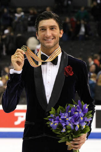 Evan Lysacek (USA) during the men's medals ceremony at the 2009 World Figure Skating Championships. He won this event.